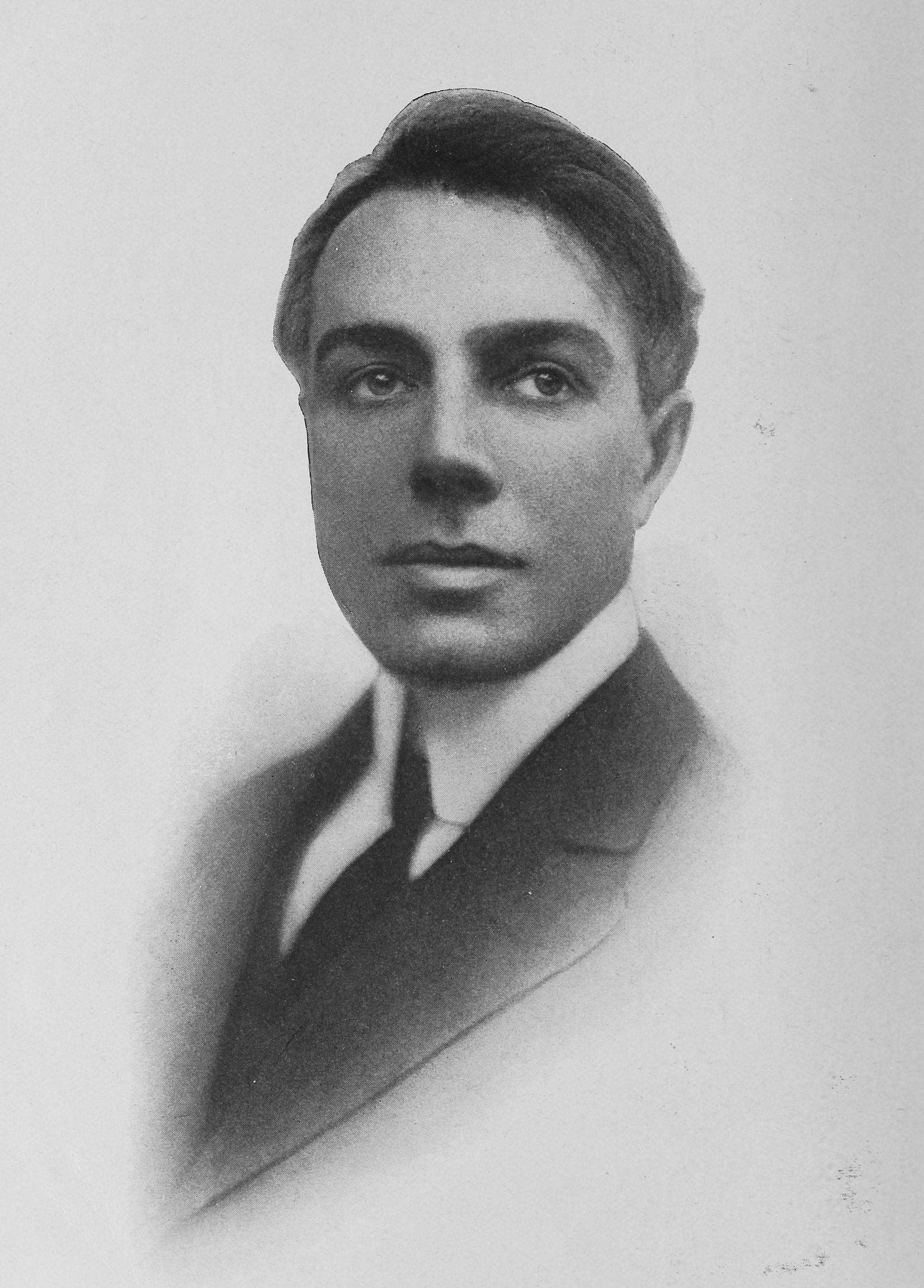 Portrait of J. W. Johnston